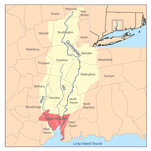 This is a map of the rivers that flow though New Haven, Connecticut, namely the Quinnipiac, West, and Mill rivers and their associated watersheds. I, Karl Musser, created it based on USGS data, watershed boundaries are approximate. Township boundaries are from the State of Connecticut.